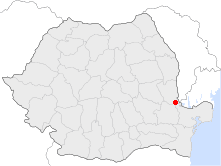 Location of Galați in Romania.